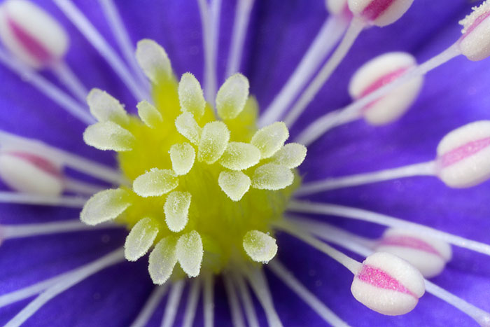 Hepatica nobilis in Estonia.